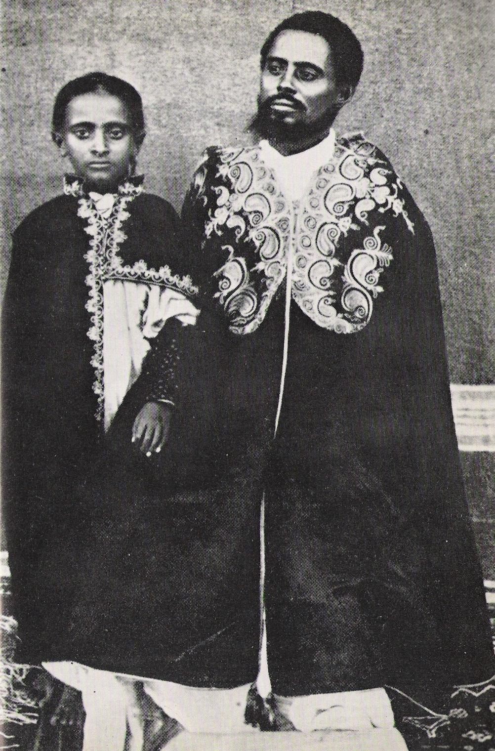 Portrait of Ras Makonnen Woldemikael and his son Lij Tafari Makonnen